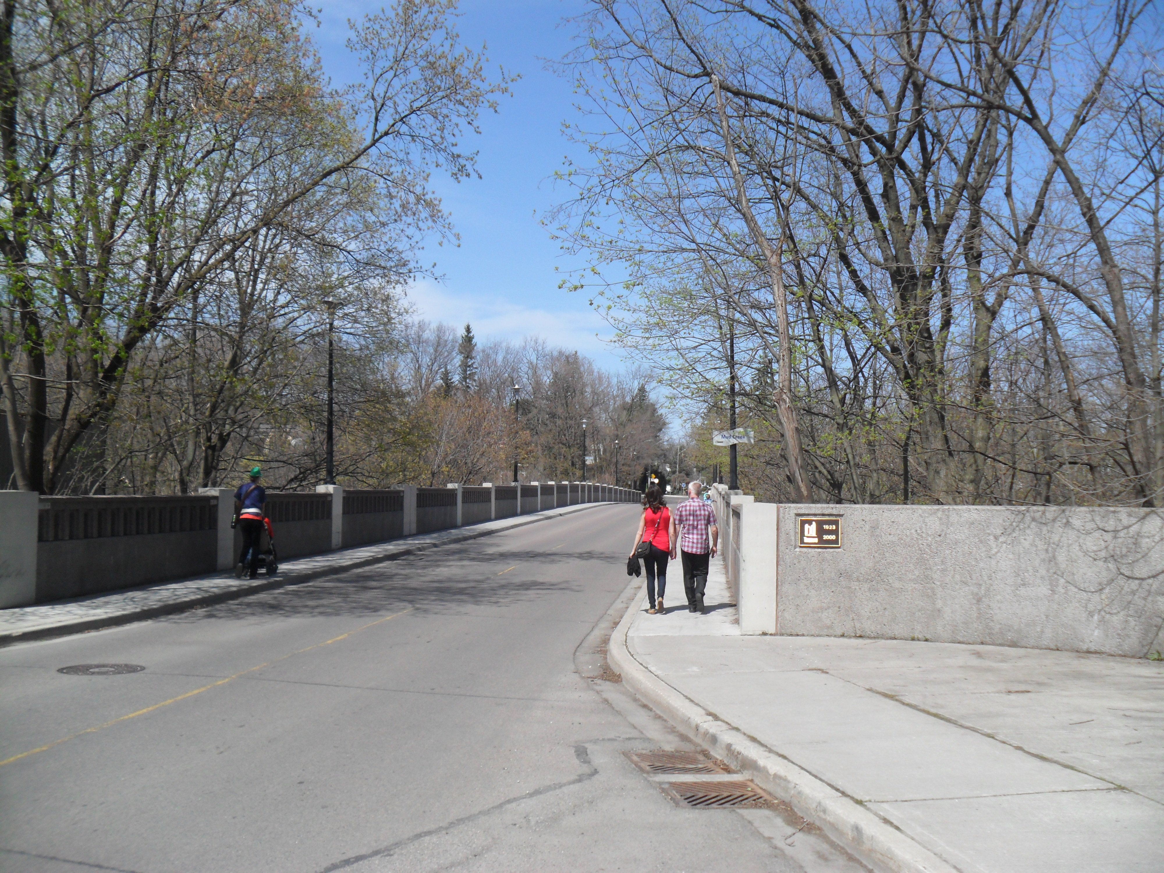 A view facing across Governor's Bridge to its namesake neighbourhood.